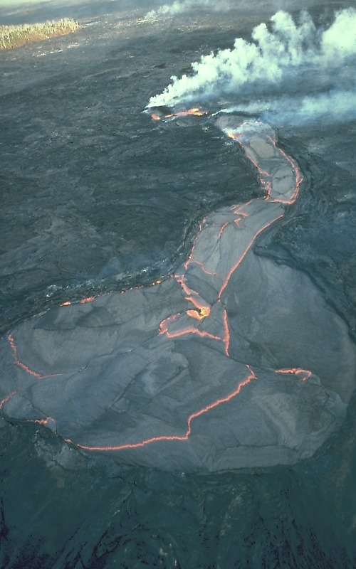 The Kupaianaha lava pond in December 1986. Cracks zigzag across the thin crust on the pond revealing the molten rock below. The entrance to the lava tube that carried lava toward the sea is at the end of the long neck on the pond. The circular part of the pond is about 100 m in diameter. (